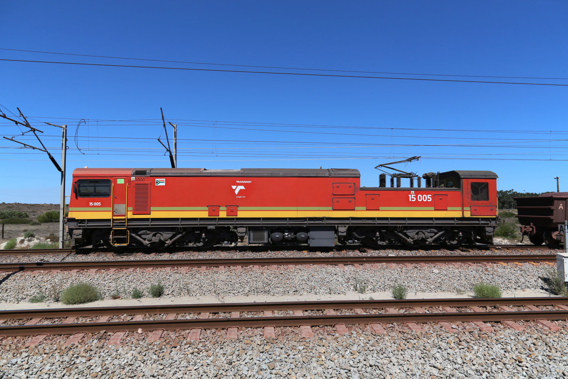 A South African Class 15E locomotive running on 50 kV on the Sishen-Saldanha railway line.